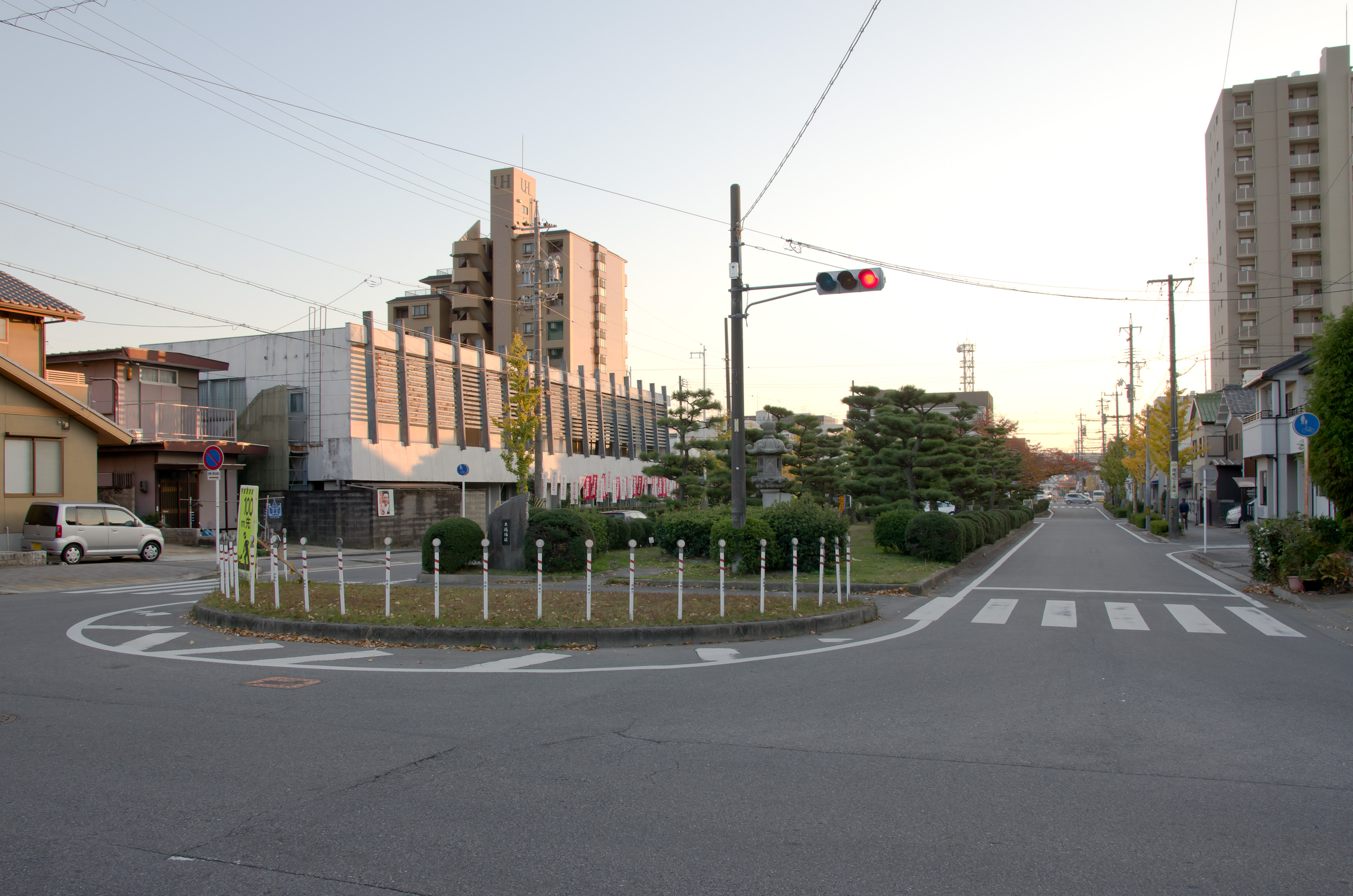 Taiyo Ryokudo (En:Sunshine Path) in Okazaki, Aichi, Japan